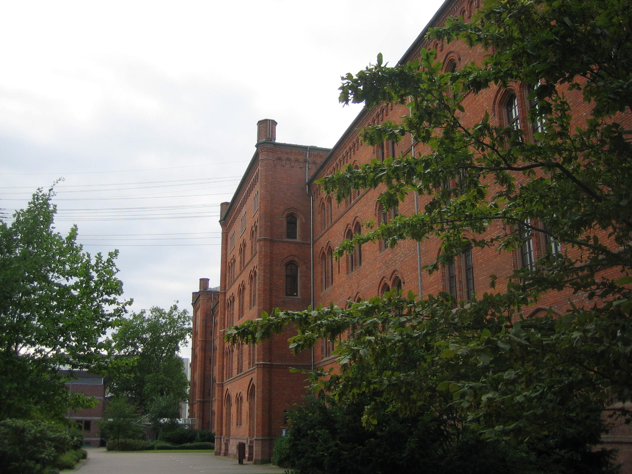 Former Rhine barracks or Rheinkaserne (Biebrich) occupied by Nassauisches Jägerkorps